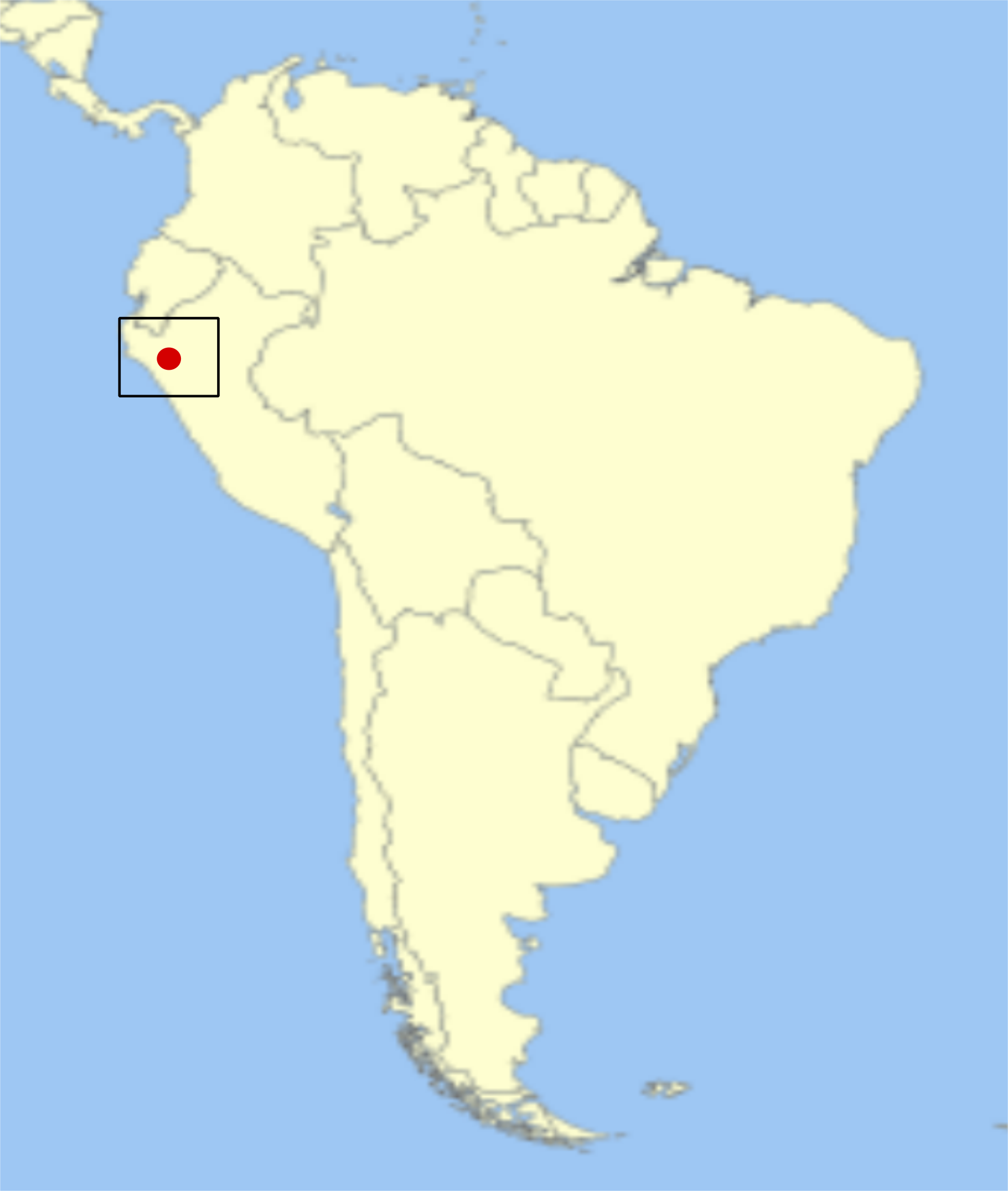 A distribution map for the walking stick insect Peruphasma schultei. An insect with a very limited distribution area. Original SVG map by author Canuckguy and others. Made with Inkscape.